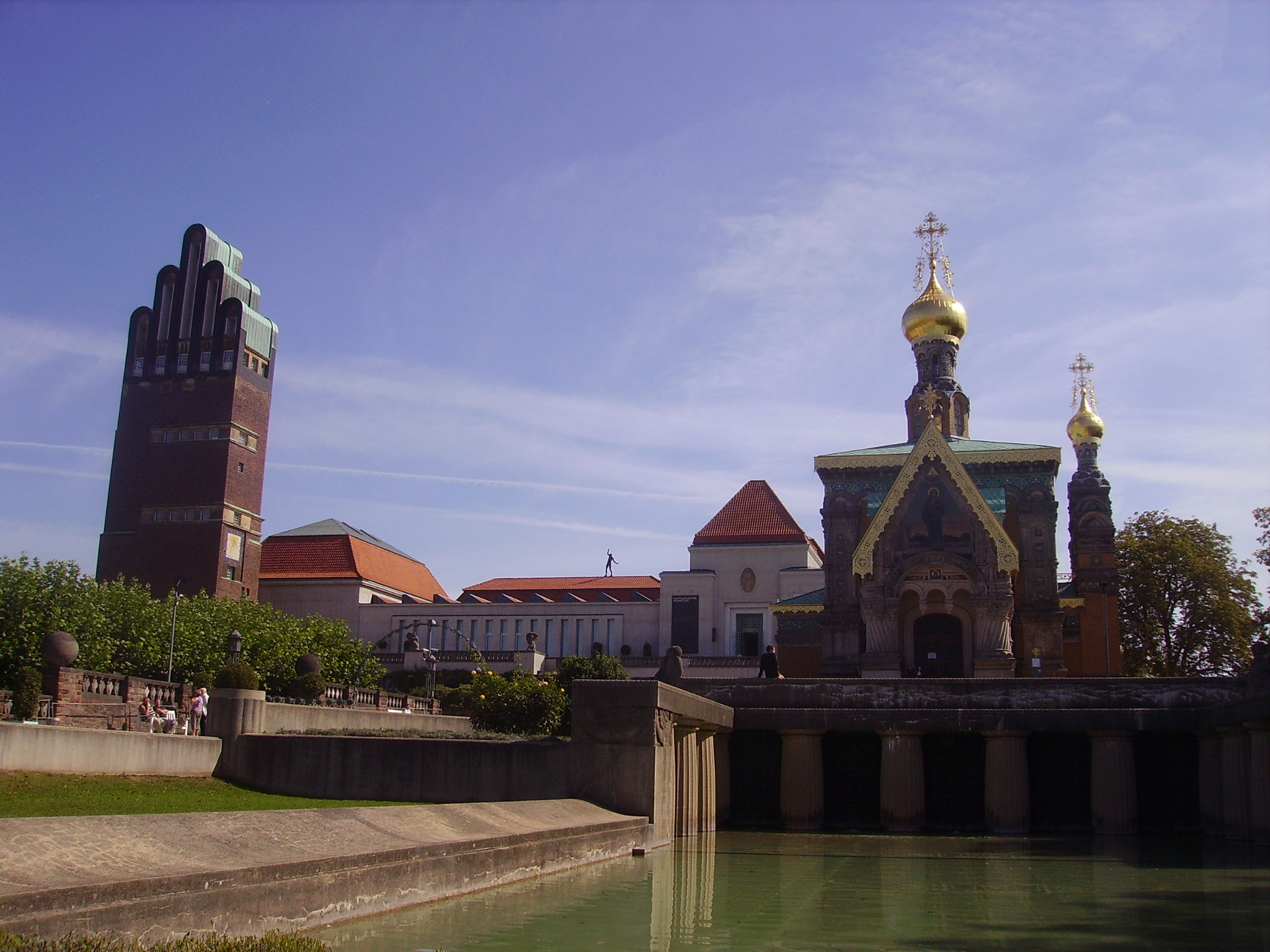 Facade of the Russian-Orthodox Chapel, Darmstadt